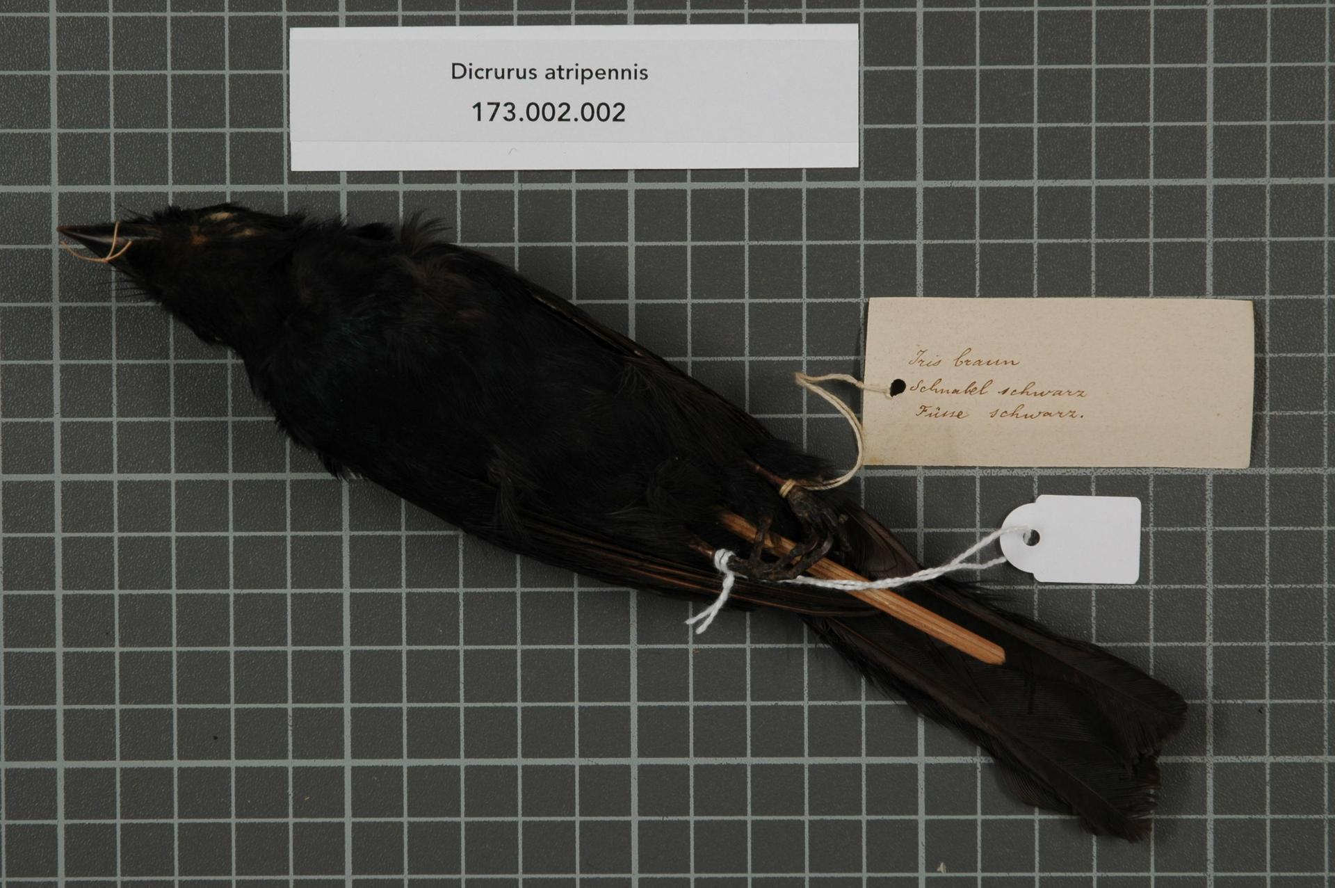 Dicrurus atripennis Swainson, 1837